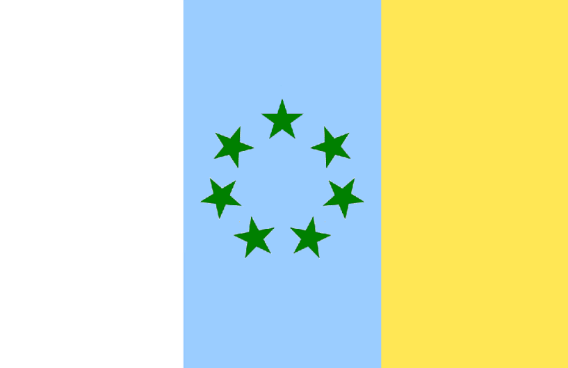 Flag of MPAIAC, a political party seeking independence from Spain for the Canary Islands